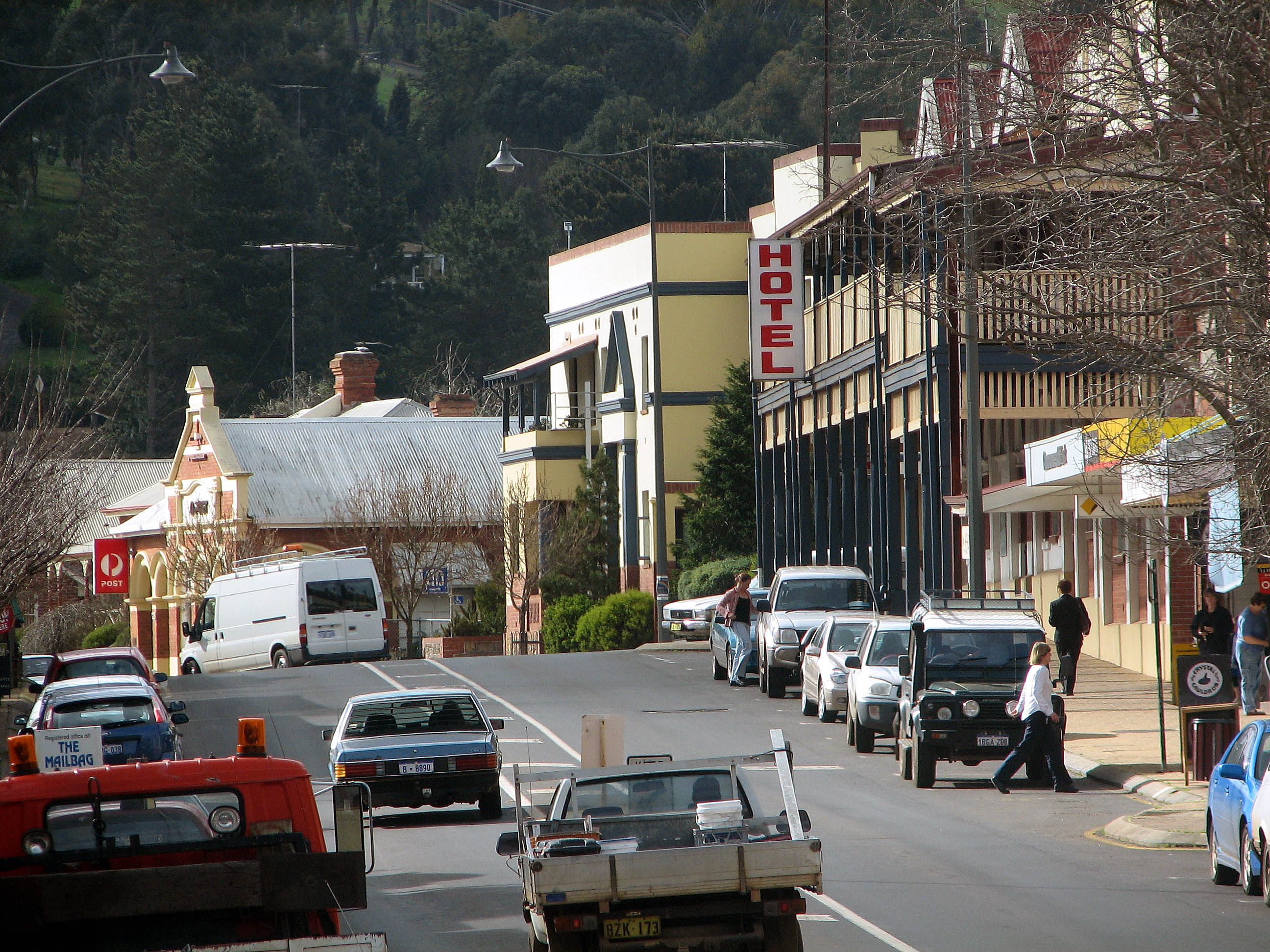 Main street, Bridgetown, Western Australia, June 2007